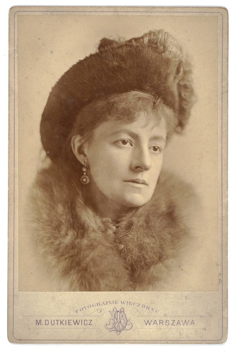 Portrait of Helena Modrzejewska by Melecjusz Dutkiewicz. Photo in collection of Biblioteka Narodowa (National Library) in Poland, F.3439